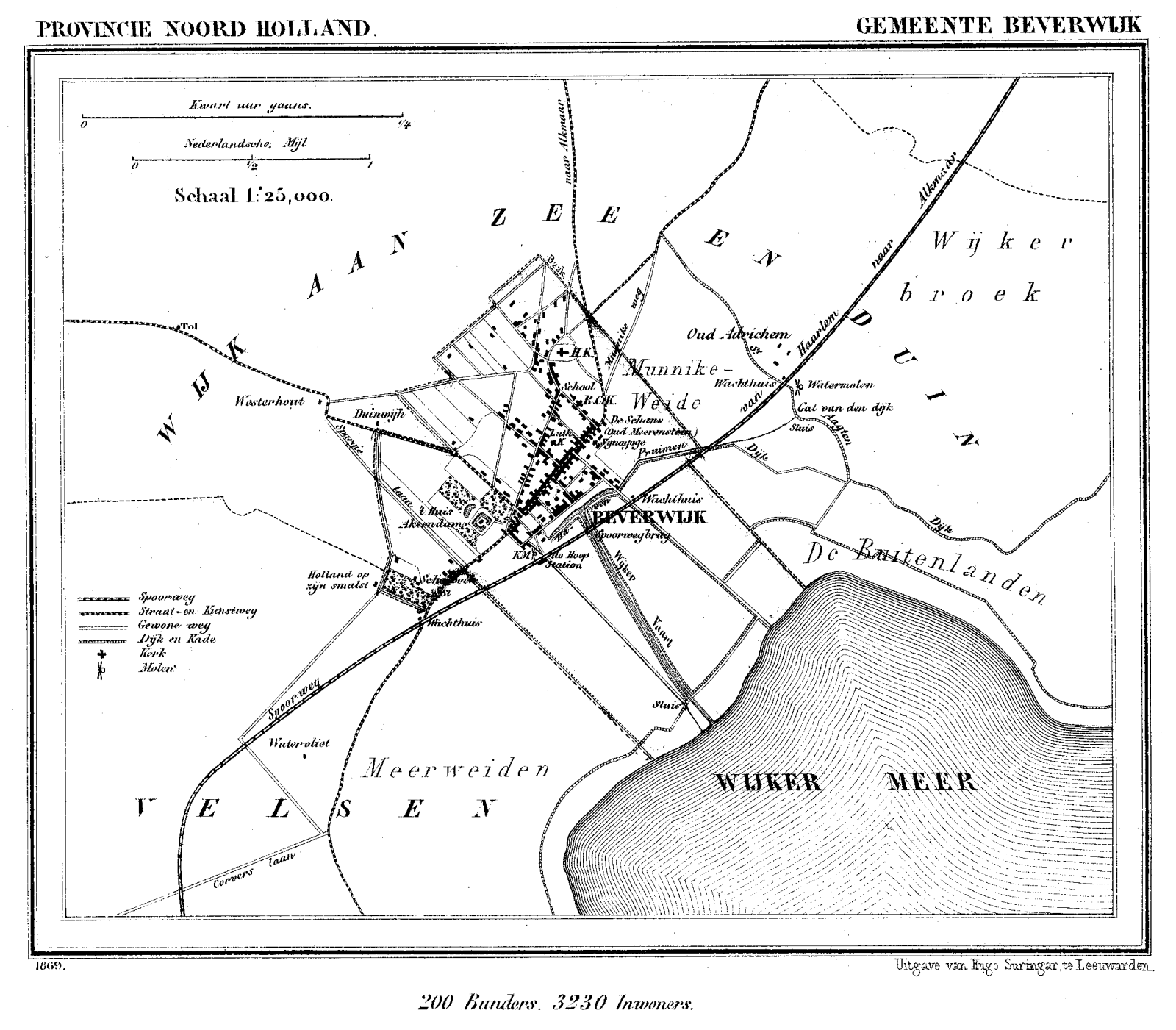 Historic map of Beverwijk, North Holland, the Netherlands